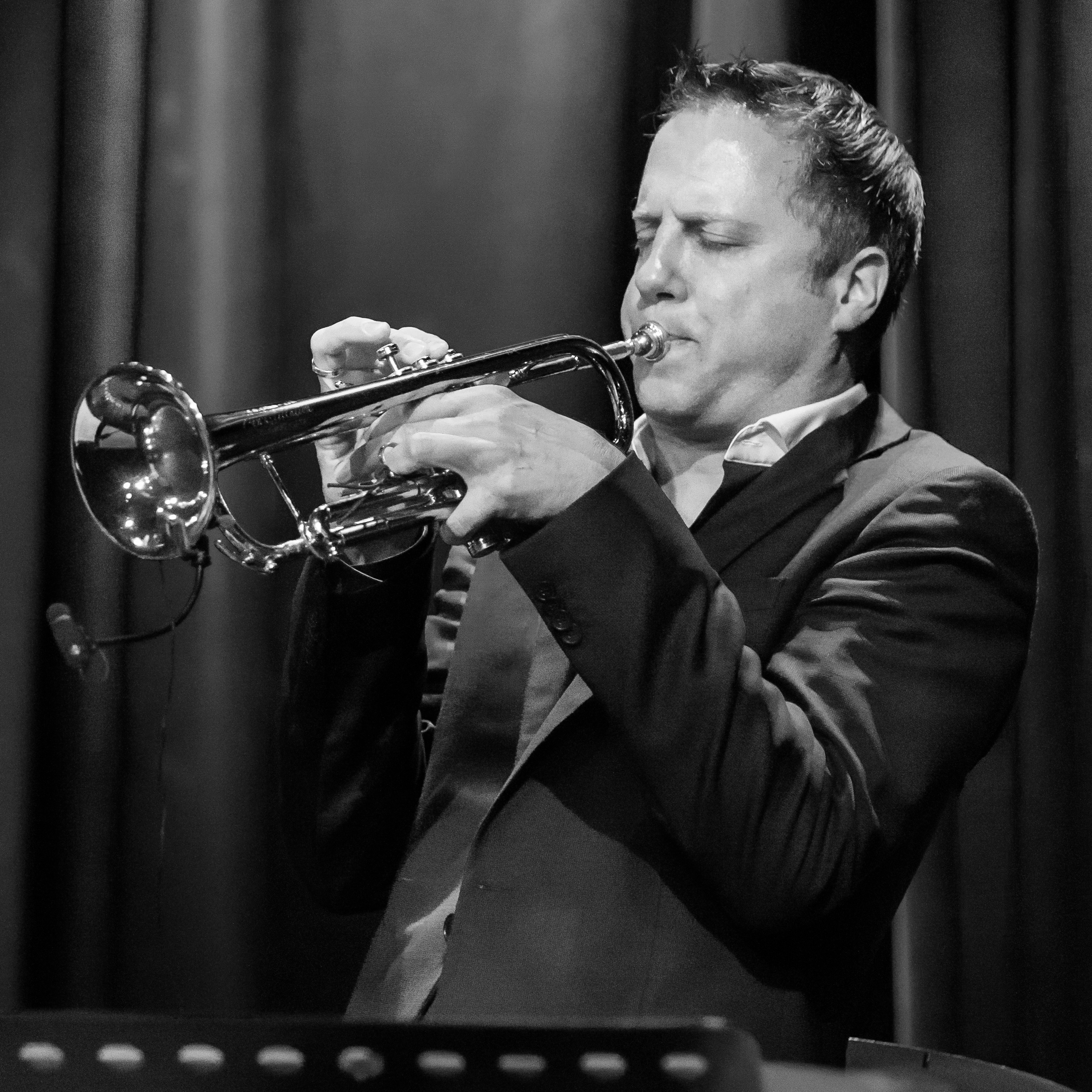 Jazz trumpeter Peter Protschka in concert “Trumpet Summit feat. Klaus Osterloh” at Pantheon Casino in Bonn